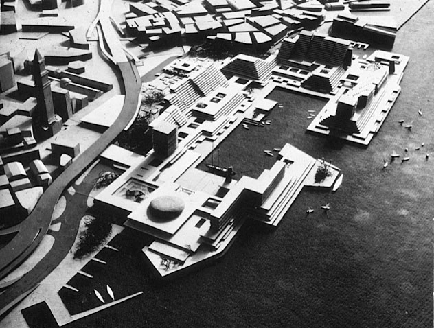 Roger Katan, Proposal for the Boston Waterfront (maquette), 1961. Won the first prize in the Boston Waterfront competition and was shown at Faneuil Hall. It included two thousand housing units, professional and commercial spaces, as well as parking. The design was inspired by Honfleur, a seaport in Normandy.